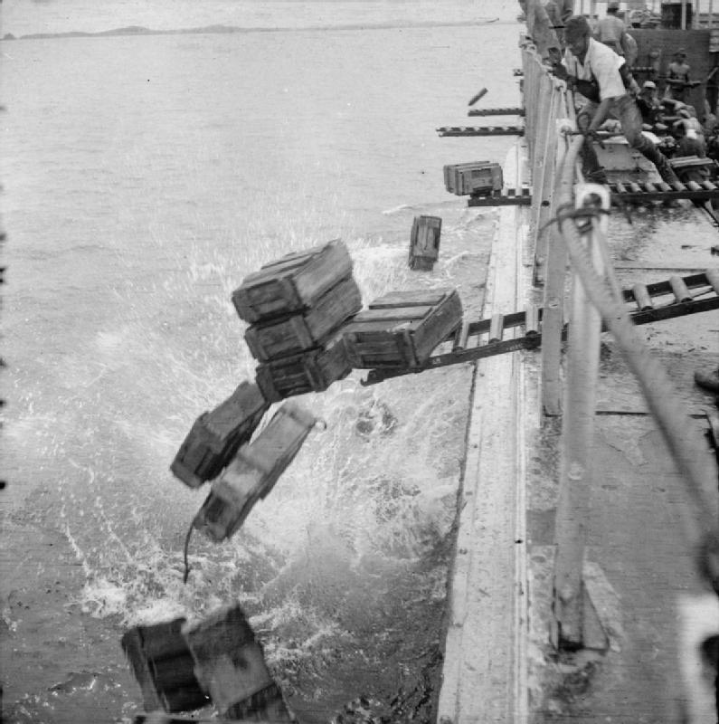 The British Reoccupation of Singapore Japanese prisoners of war dump crates of ammunition, collected from Japanese dumps all over Singapore, at sea from a landing craft.